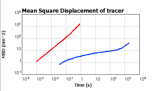 Mean square displacement of micrometric tracers in a purely viscous fluid and in a viscoelastic fluid